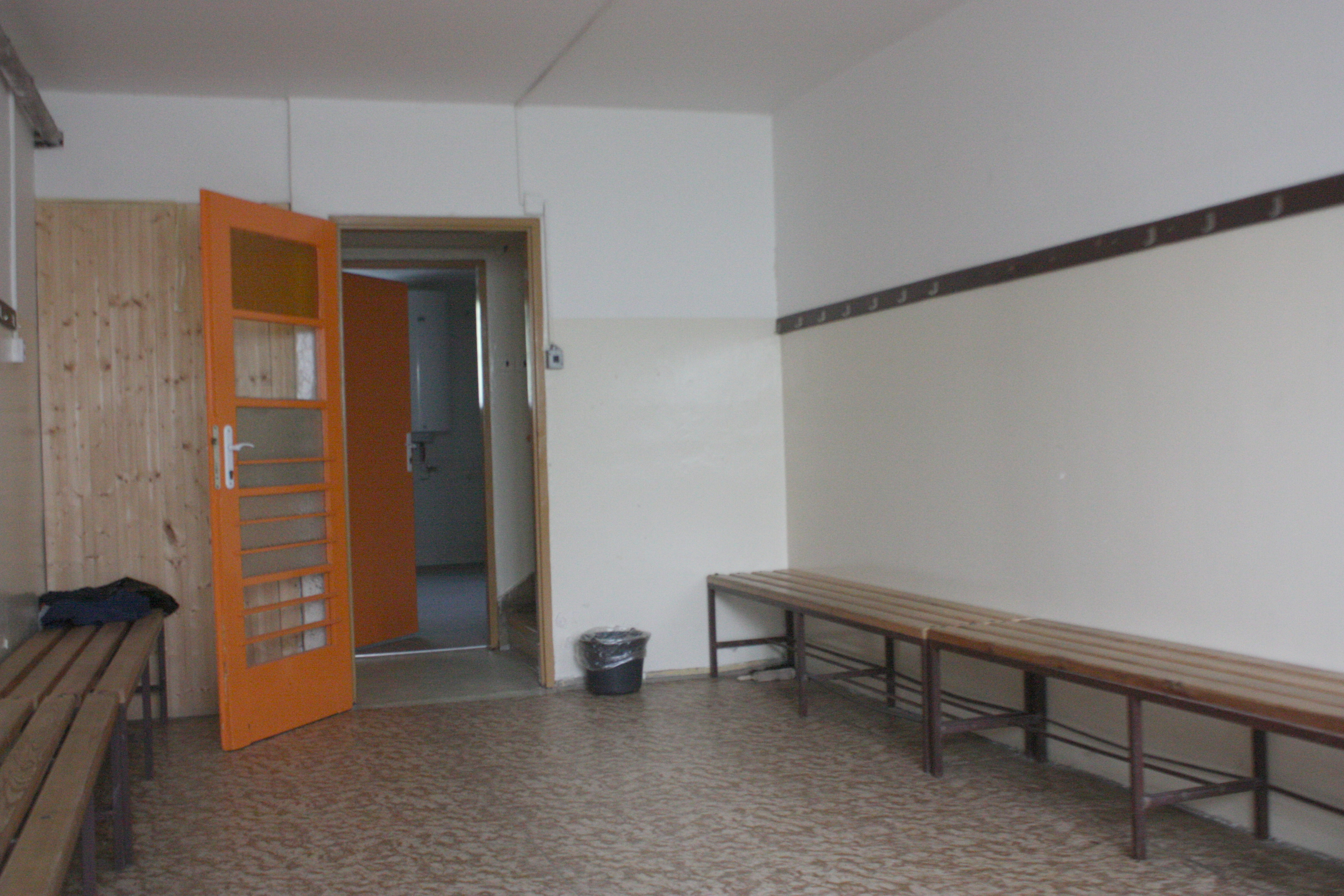 Gymnázium Brno-Řečkovice, dressing-room